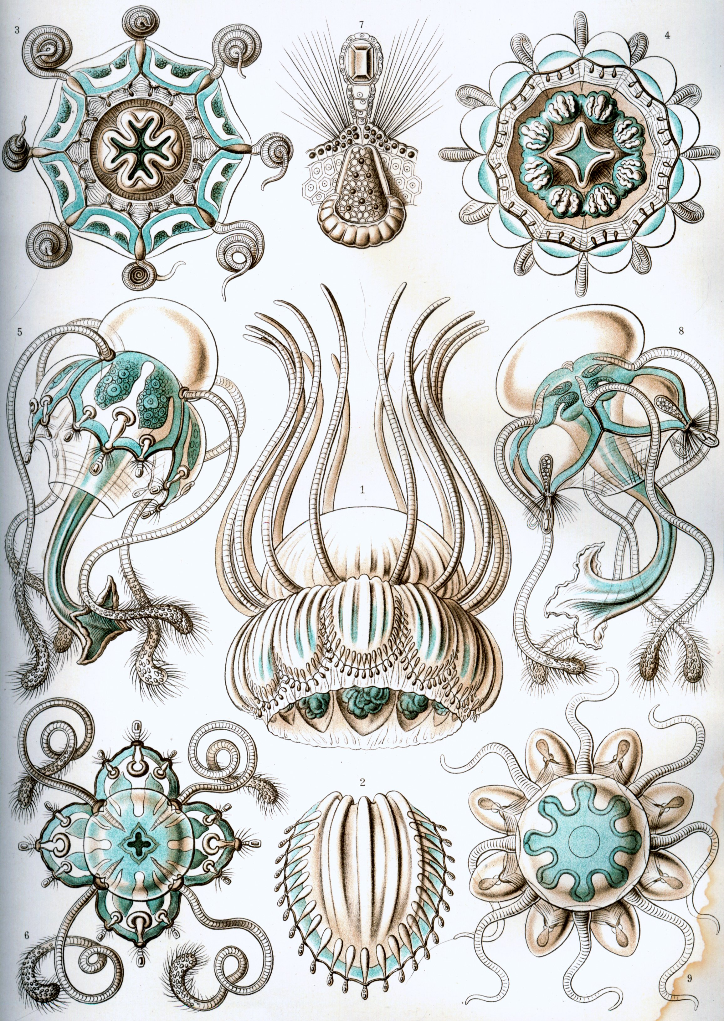 (center): Pegantha pantheon (Haeckel) = Pegantha pantheon Haeckel, 1879, side view (bottom center): Pegantha pantheon (Haeckel) = Pegantha pantheon Haeckel, 1879, single bell lobe (top left): Aeginura myosura (Haeckel) =? Aeginura grimaldii Maas, 1904, bottom view (top right): Solmaris Godeffroyi (Haeckel) = Pegantha godeffroyi (Haeckel, 1879), bottom view (center left): Cunarcha aeginoides (Haeckel) = Aegina citrea Eschscholtz, 1829, side view (bottom left): Cunarcha aeginoides (Haeckel) = Aegina citrea Eschscholtz, 1829, top view (top center): Cunarcha aeginoides (Haeckel) = Aegina citrea Eschscholtz, 1829, auditory tentacle (center right): Cunantha primigenia (Haeckel) =? Aegina sp., young medusa, side view (bottom right): Cunoctantha discoidalis (Haeckel) =? Cunina octonaria McCrady, 1857, top view